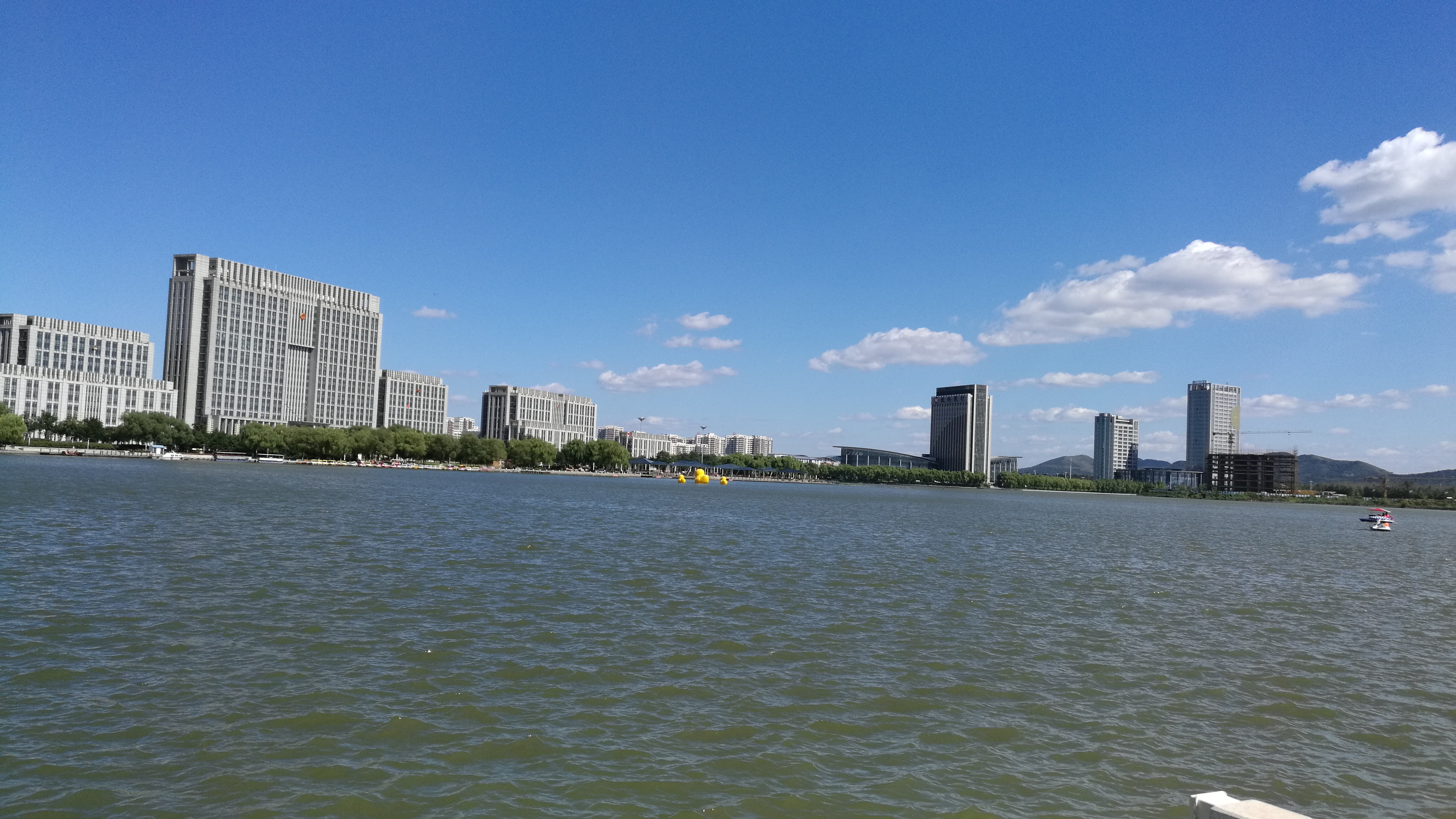 The Fanhe Town in Tieling County, Tieling City, Liaoning Province, also known as Tieling New City or Fanhe New District among the locals, is where the government of Tieling City located in. It's also called Tieling Economic Development Area.